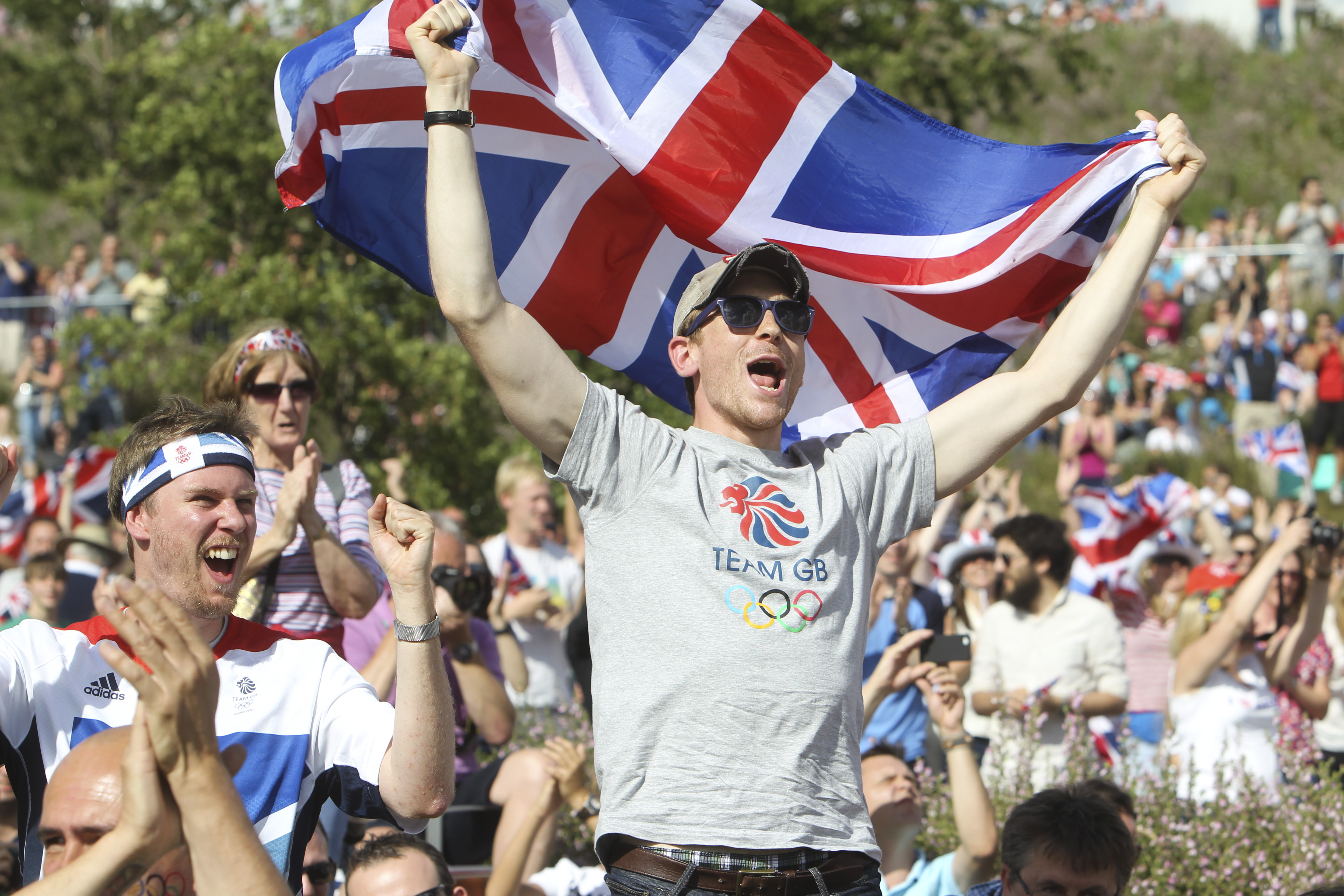 Fans at Live Site East on the Olympic Park celebrate Andy Murray winning gold in the Tennis, 5 August 2012